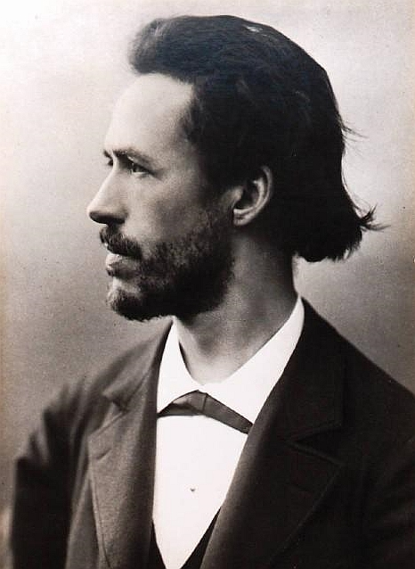 French composer Benjamin Godard (1849-1895)